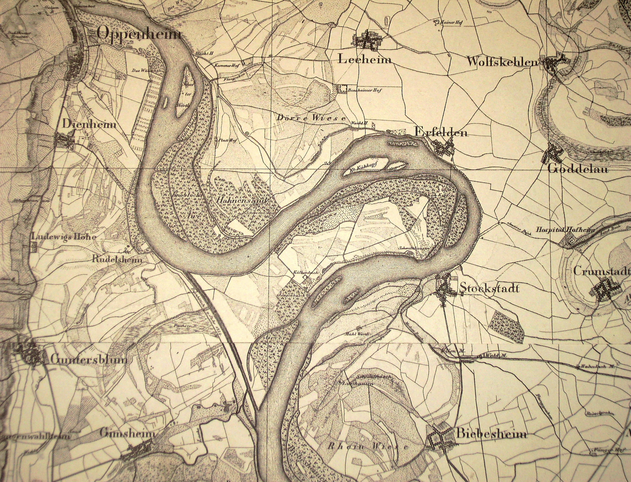 Part of a historic map showing River shortcut of Rhine River at Kükopf